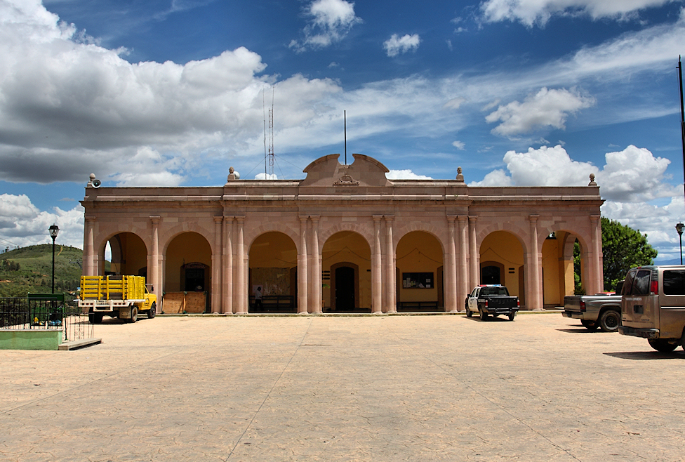 City Hall. San Agustin Etla, Oaxaca, Mexico.